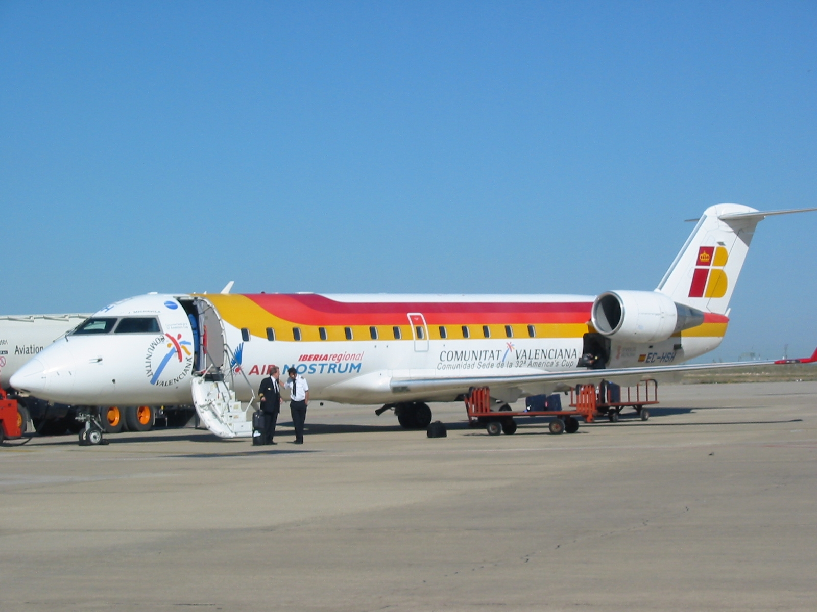 Air Nostrum (Iberia Regional) Canadair CL-600-2B19 Regional Jet CRJ-200ER at Valladolid Airport, Spain.